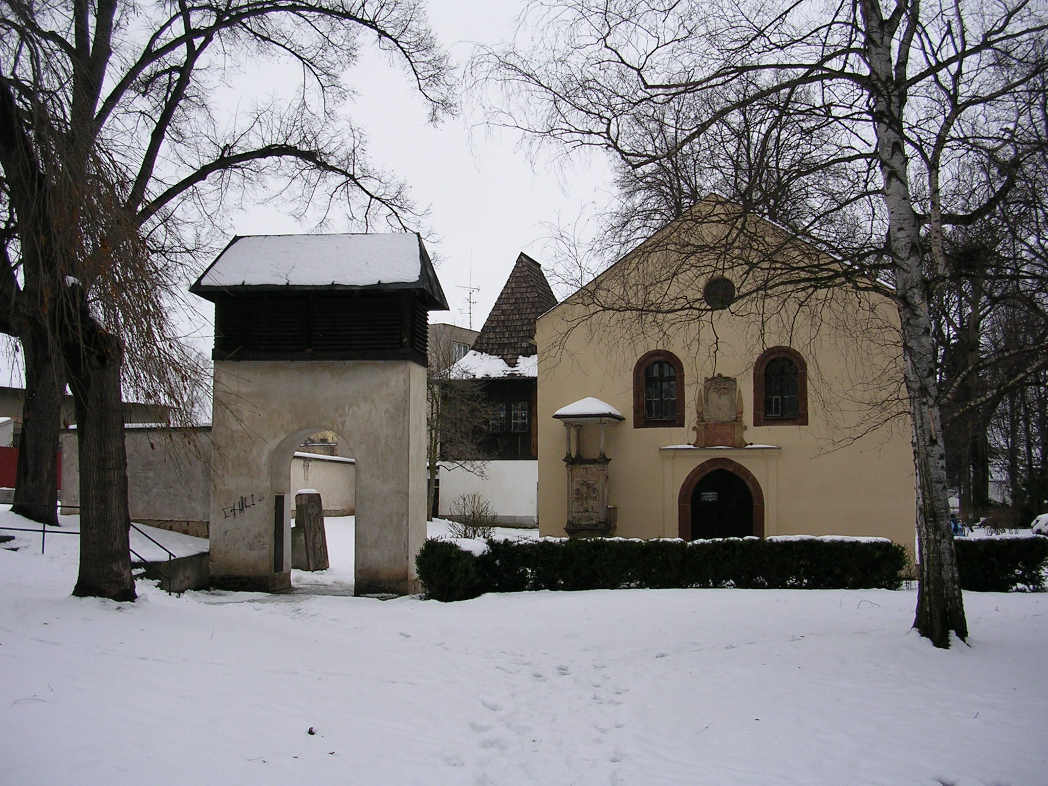 Český Brod, Central Bohemian Region, the Czech Republic.